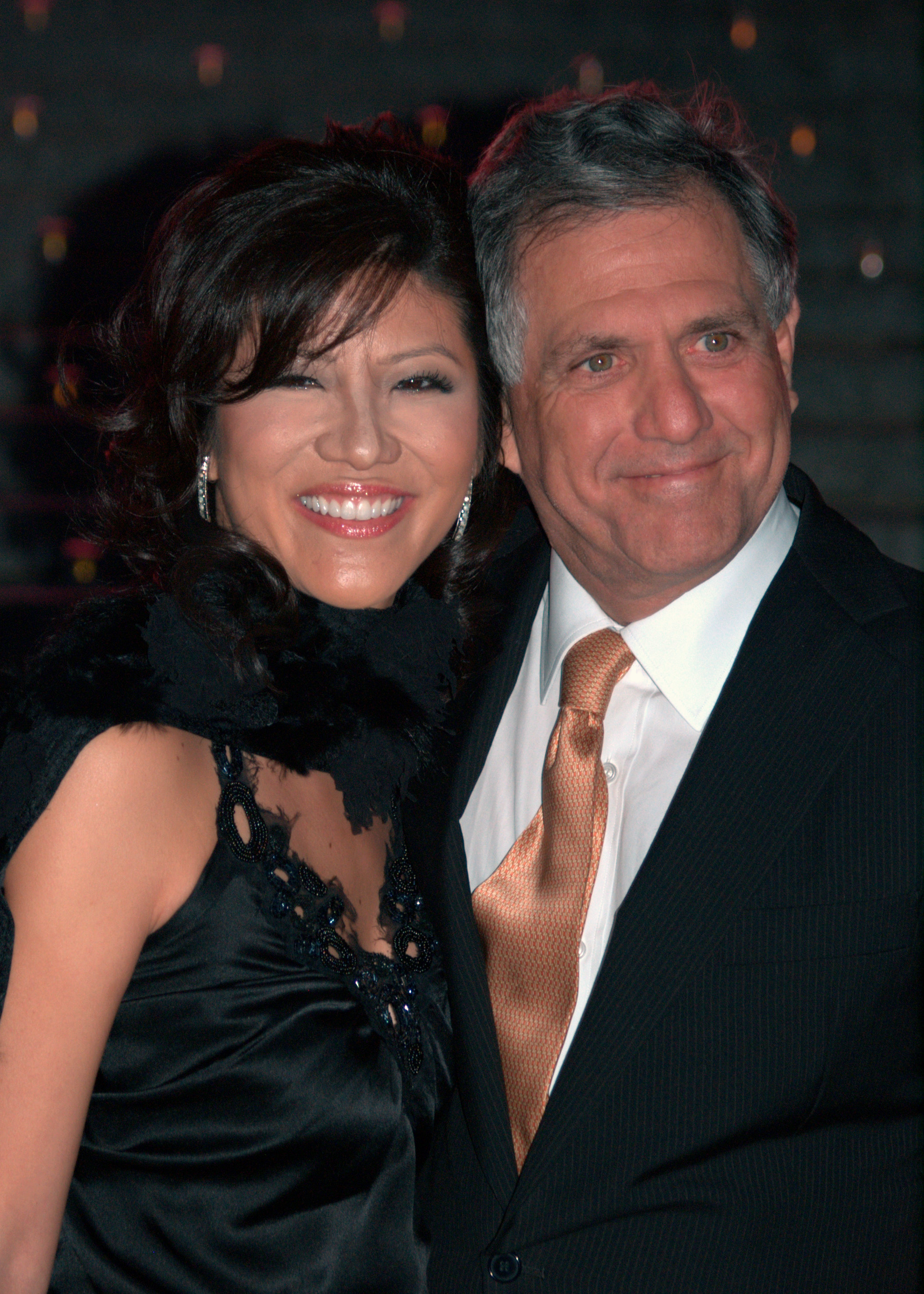 Julie Chen and Les Moonves at the Vanity Fair celebration for the 2009 Tribeca Film Festival.